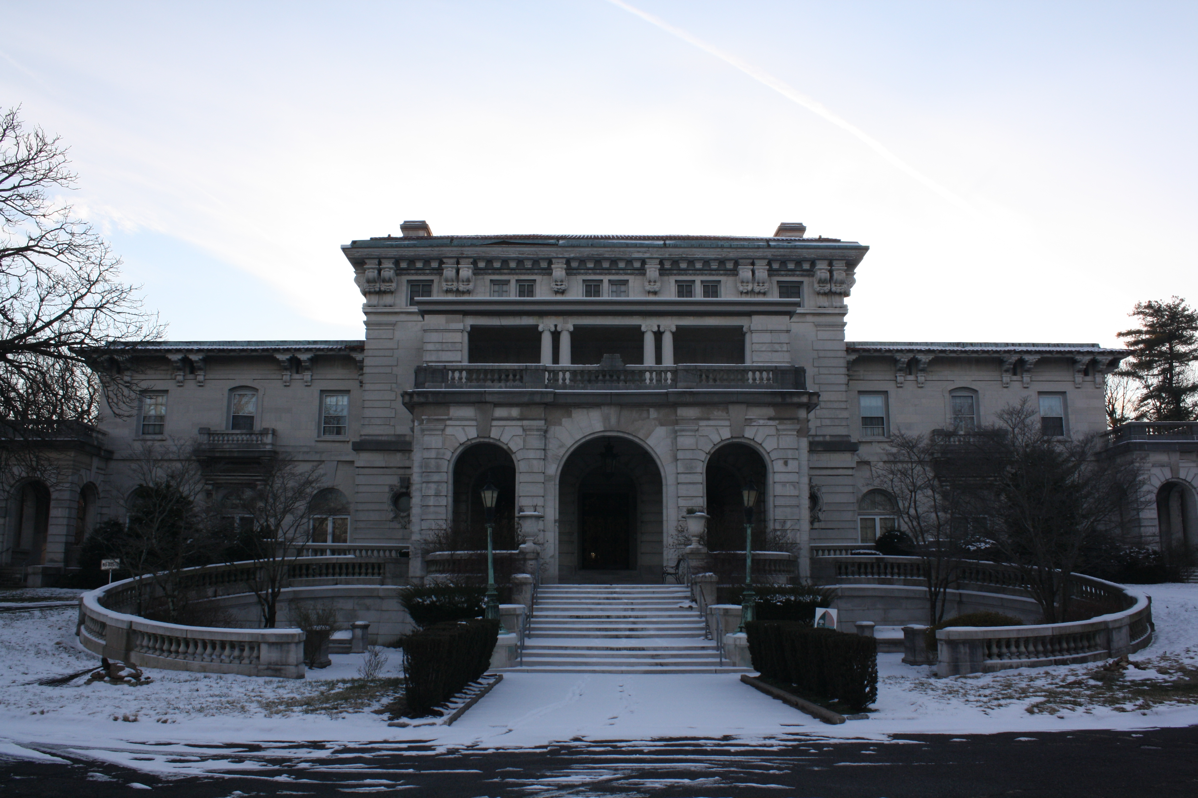 Elstowe Manor, main building of Elkins Estate. Elstowe Manor was built in 1898 at the location where "Needles", the former family summer home of William L. Elkins had stood.